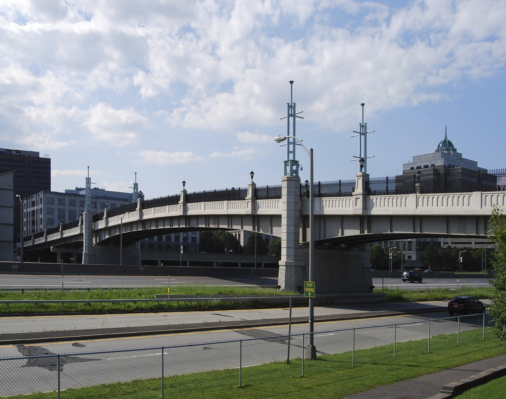 The Hudson River Way is a pedestrian bridge that crosses Interstate 787 in Albany, New York, United States, connecting downtown to the Corning Preserve.